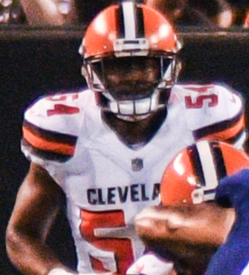 Cleveland Browns vs. New York Giants